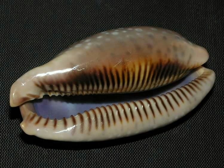 Photograph of the seashell Macrocypraea cervinetta (Kiener, 1844) / Origin of image: Own collection. Panama. Gobernadora Island. Underside view (not Macrocypraea zebra (Linnaeus, 1758)). This species was again determined in another species through information from its original source. According Abbott & Dance, Macrocypraea zebra is from the Atlantic Ocean and Macrocypraea cervinetta is from the west coast of America. The Gobernadora Island is from the west coast of Panama, Pacific Ocean, habitat of M. cervinetta, a similar species to M. zebra. ABBOTT, R. Tucker; DANCE, S. Peter (1982). Compendium of Seashells. A color Guide to More than 4.200 of the World's Marine Shells. New York: E. P. Dutton. p. 96. 412 pp.